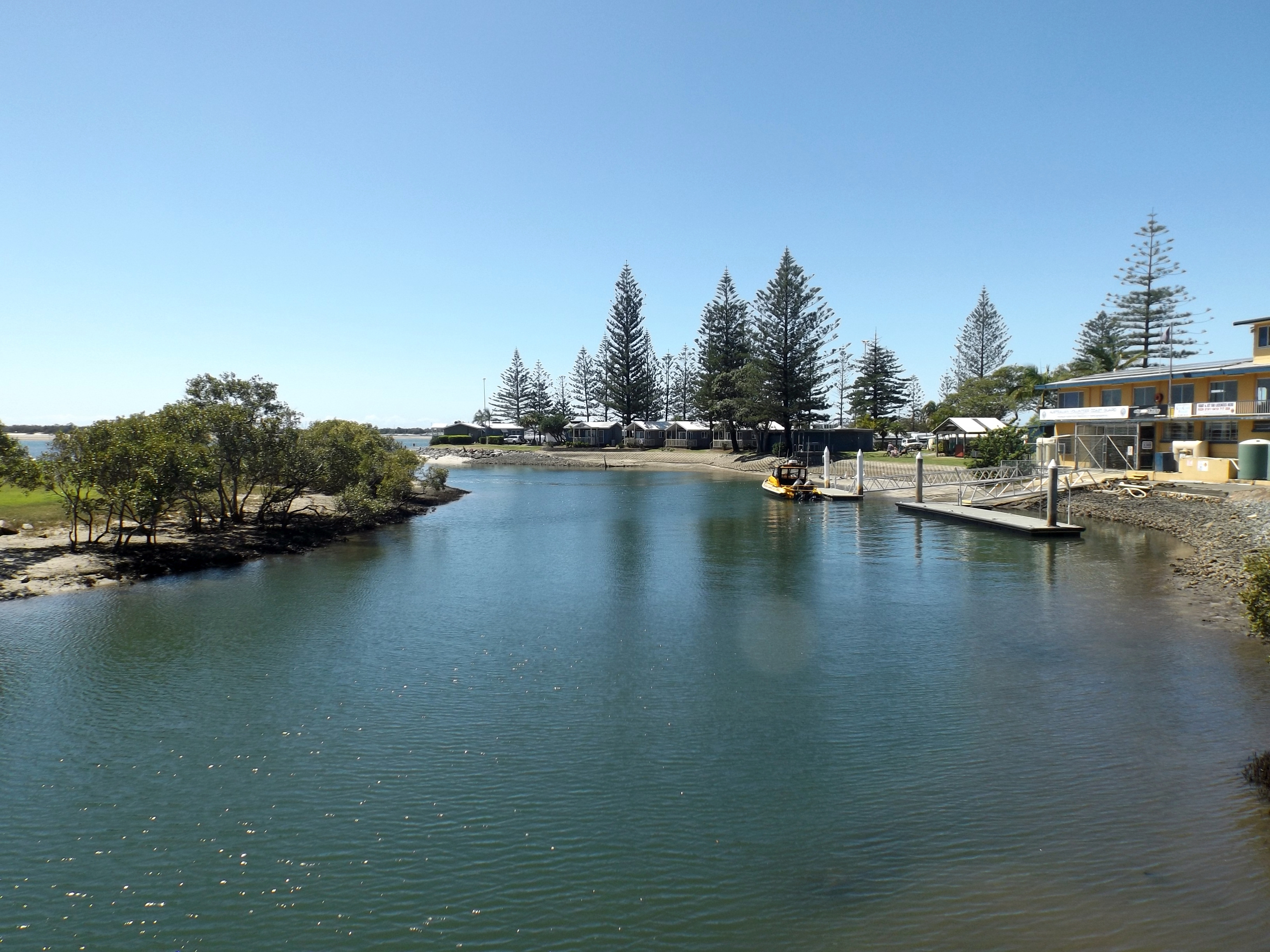 Photo of Loders Creek, Gold Coast, Queensland, Australia. Labrador is to the left and Southport to the right of the image.